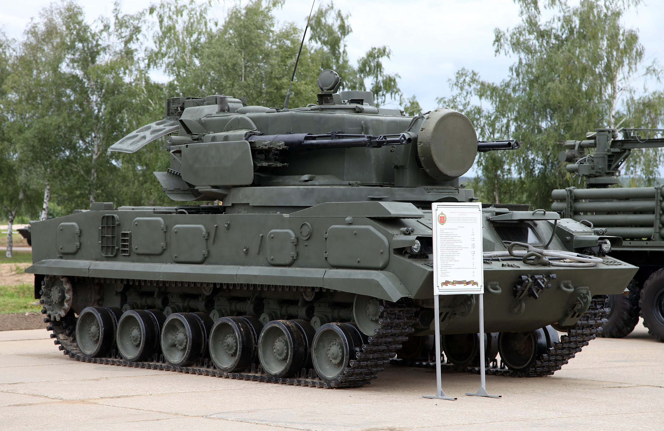 2S6M combat vehicle 2K22M Tunguska-M